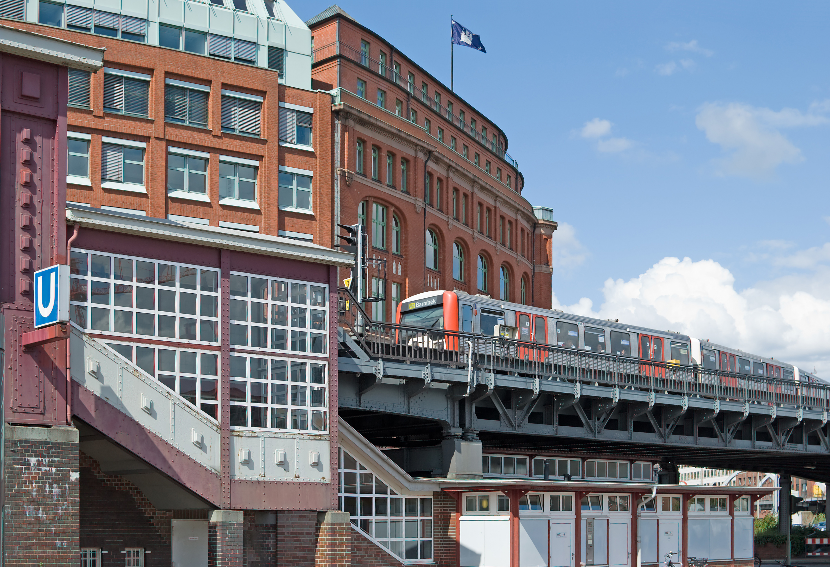 Hochbahn Hamburg